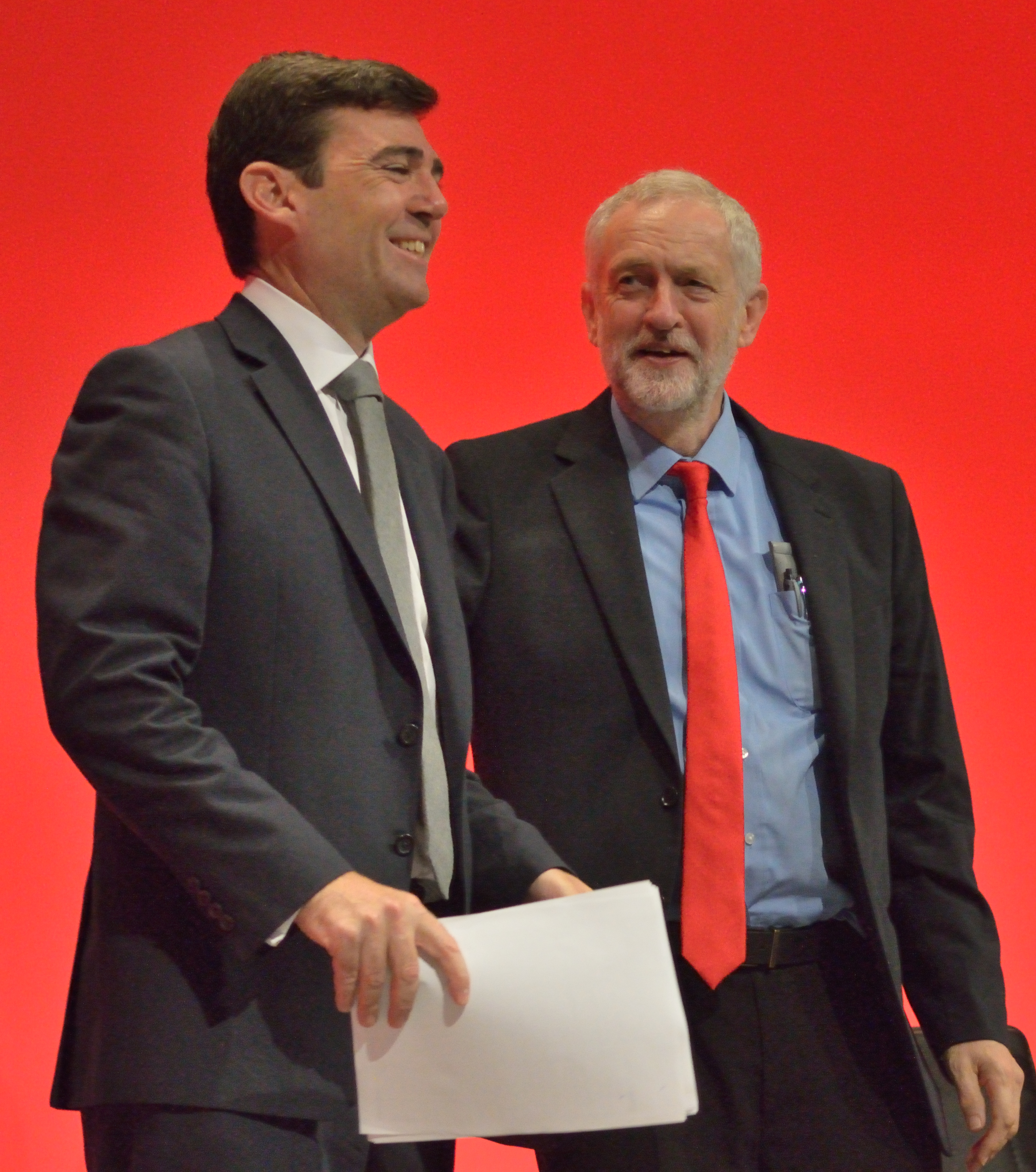 Andy Burnham with Jeremy Corbyn after giving his final Shadow Home Secretary speech at the 2016 Labour Party Conference in Liverpool. Burnham had already announced he would be standing in the Mayor of Greater Manchester election in 2017.